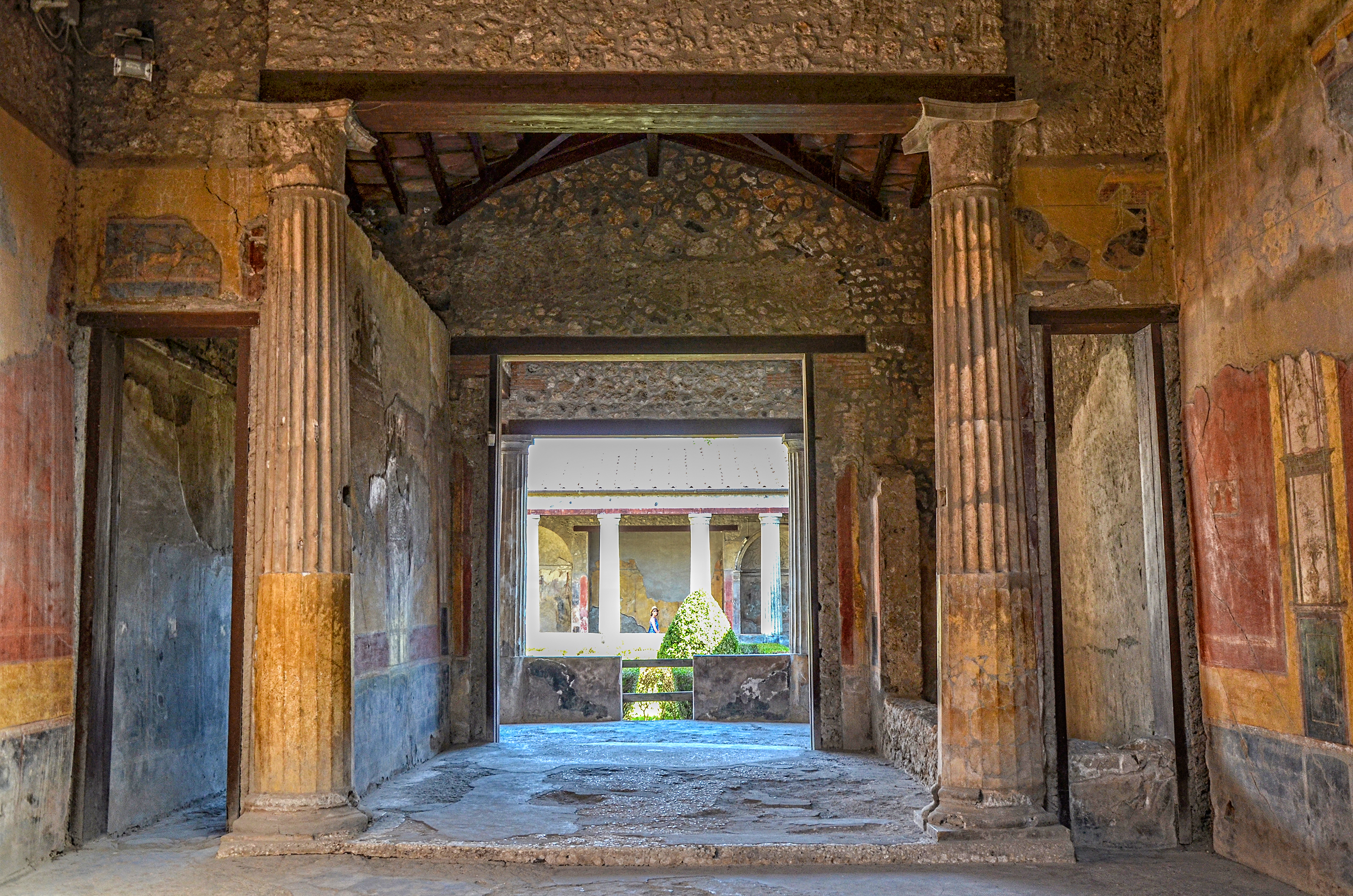 On the south side of the atrium facing the entrance is the tablinum. The tablinum is open to the atrium over its full width and likewise to the peristyle to the south. It is decorated in the fourth style in a similar manner to the atrium, but the colours are reversed, with yellow panels with internal ornamental borders framed in red separated by white architectural openings above a black frieze decorated with ornamental bands, plants, and medallions.